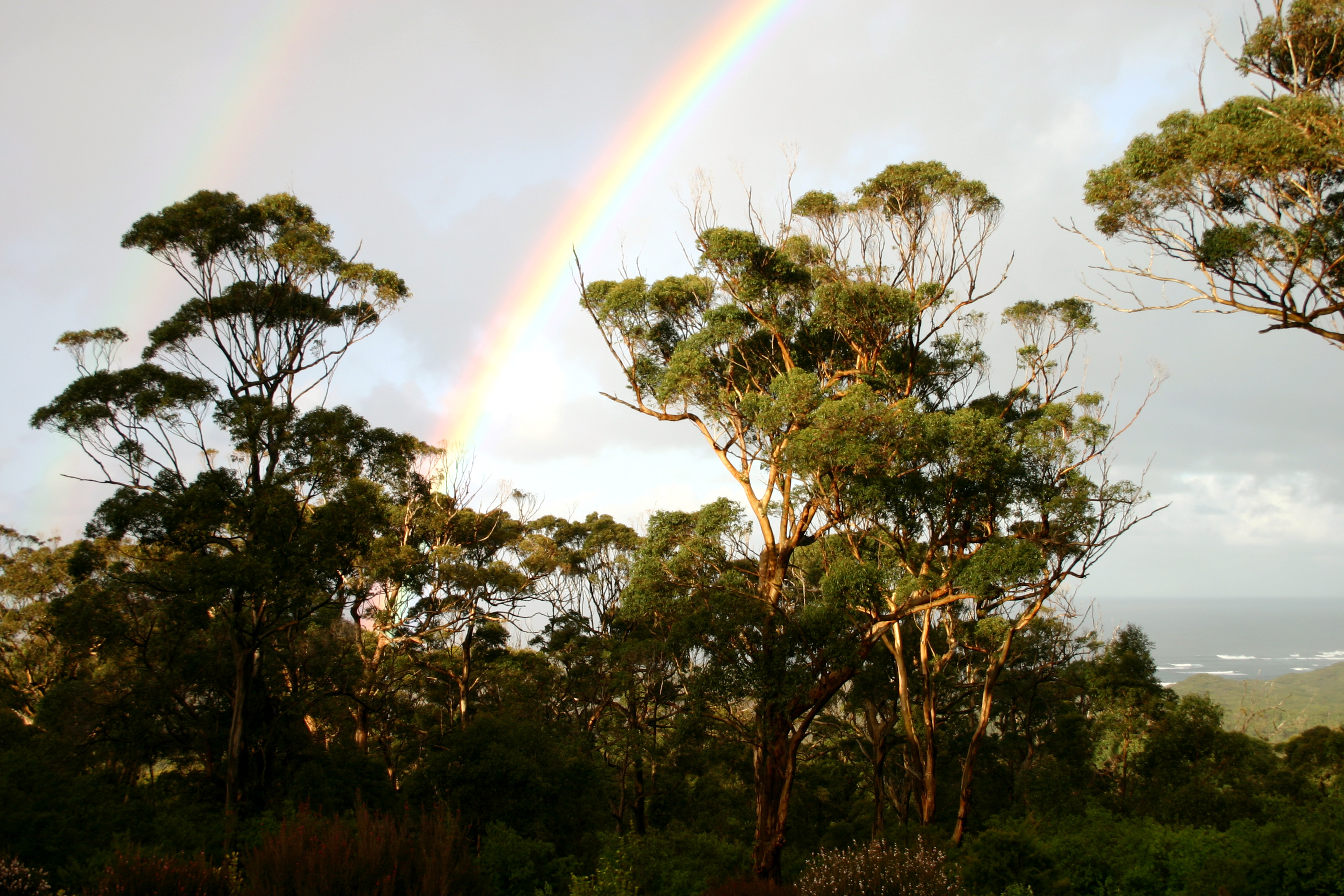 Rainbow and karri trees near the Southern Ocean, Denmark, Western Australia.